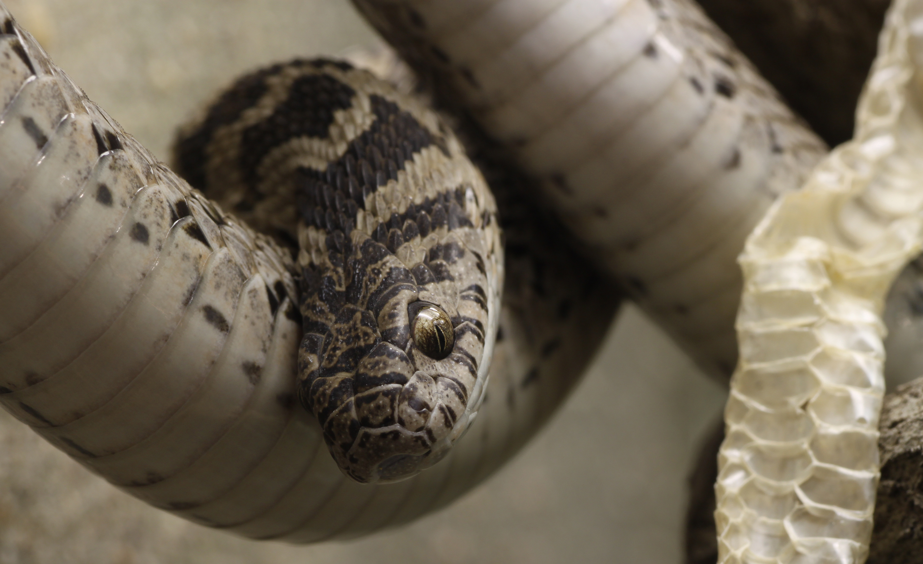 Common Egg Eater, Egg-Eating Snake or Rhombic Egg Eater Dasypeltis scabra, Family: Colubridae, Location: Germany, Stuttgart, Zoological Garden